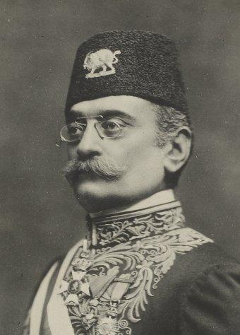 Photograph of Kitabgi Khan, in his capacity as Persia's commissioner for the 1900 World Fair in Paris.